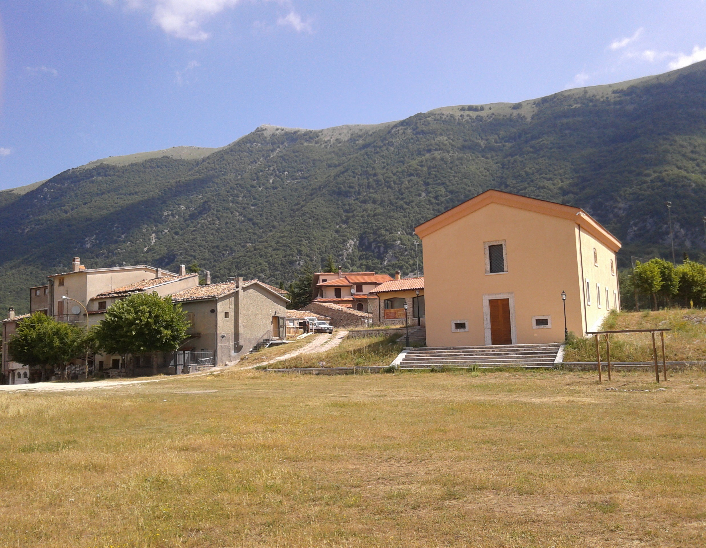 Santa Maria large square, Civita d'Antino, Abruzzo, Italy